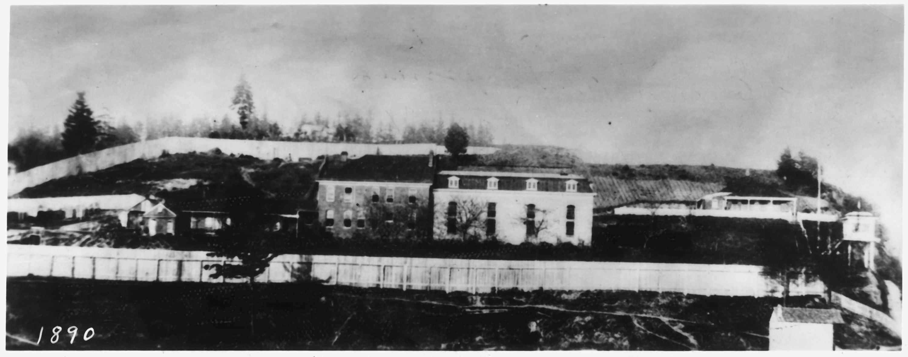 Scope and content: The photos in the collections date from its establishment as a Federal prison located on an island in Puget Sound.